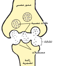 Arabic version of image:Synapse.png by me.